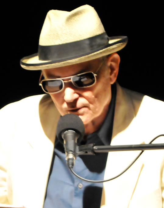 NPR's Joe Frank in rehearsal and production for his spoken work show Just An Ordinary Man at Steppenwolf Theatre Company. Photo Credit: Mark Campbell Creative